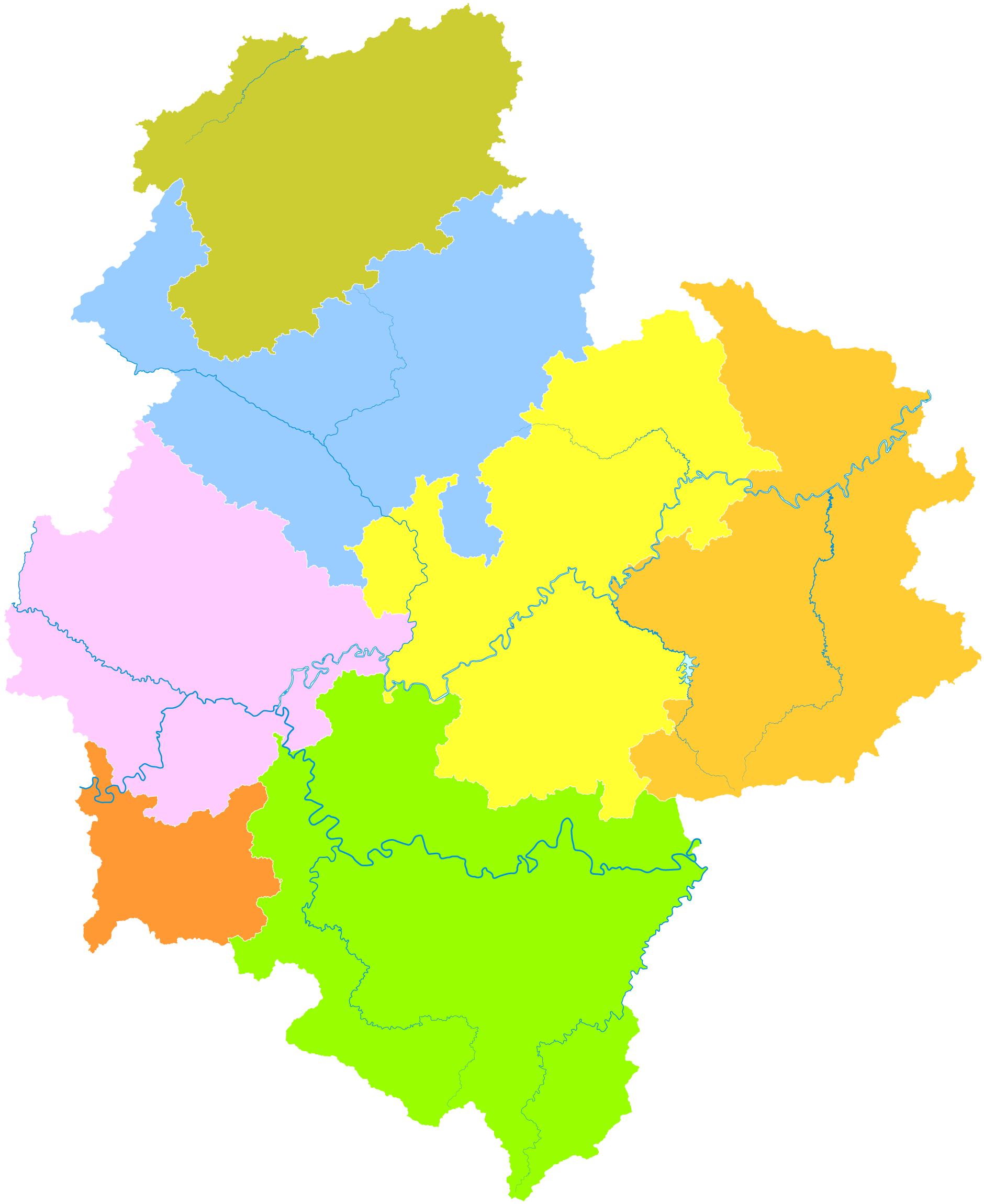 administrative divisions of Chongzuo City, Guangxi, China